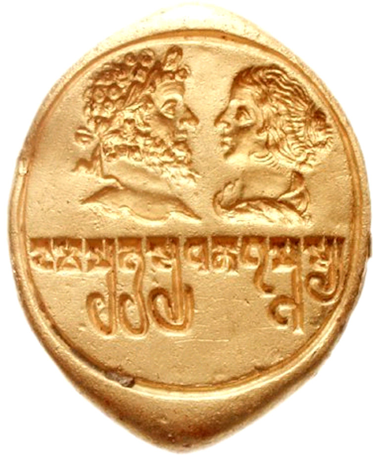 Kushan ring with Septimus Severus and Julia Domna. Gold finger ring from Ancient India. Kushan period, early 3rd century AD. Solid gold ring, of typical Roman shape, fabricated rather than cast. The intaglio bezel was made separately and carefully fitted into the ring (the join visible only in a slightly damaged area on the edge of the bezel). The bezel is decorated with vis-à-vis portraits of Septimius Severus (laureate head left) and Julia Domna (draped bust right with elaborate coiffure), beneath which is a Gupta Brahmi inscription in a characteristic square-serif style: Damputrasya Dhanguptasya ([Seal of] Dhangupta son of Dama).